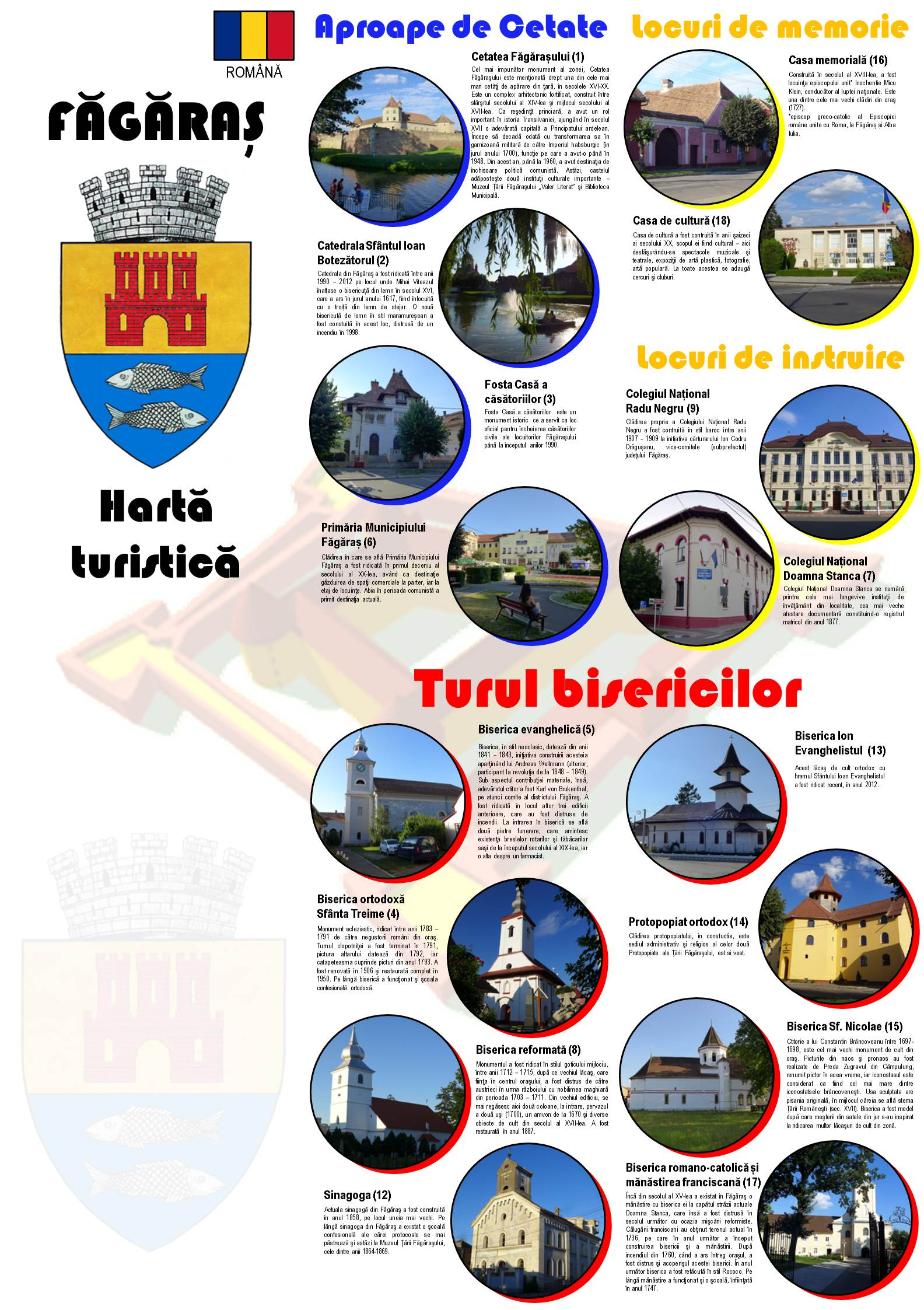 legend, Touristic map of Fagaras in Romania, Transylvanie, Brasov Romani: legenda, Harta turistica a Fagarasului, România, judetul Brasov